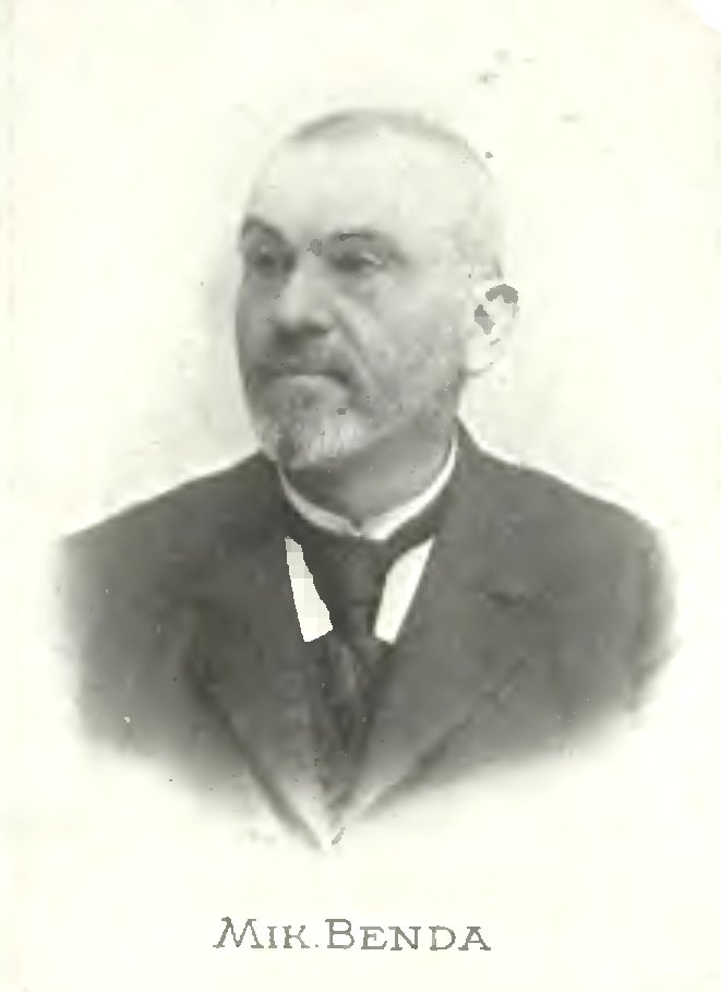 Portrait of Mikuláš Benda (1843-1925), Czech teacher of mathematics.